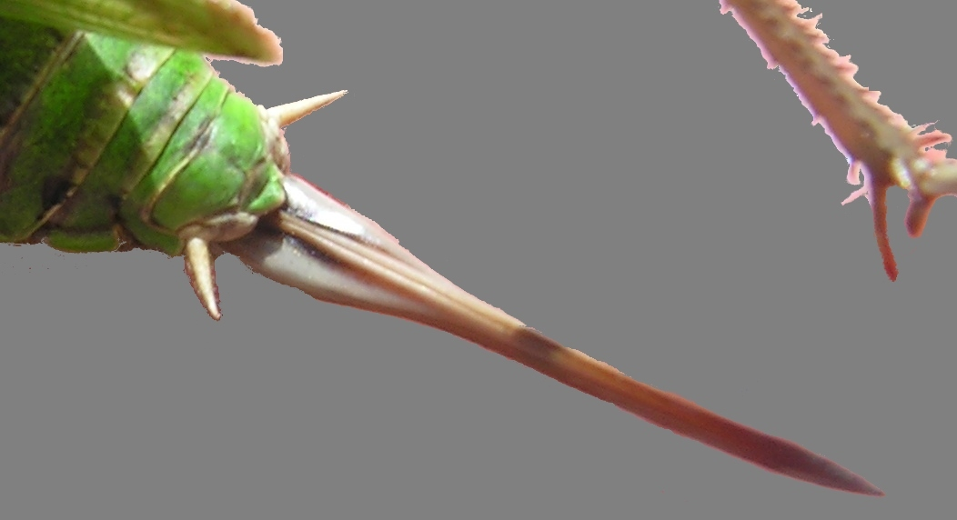 Grasshopper ovipositor (close distance view)